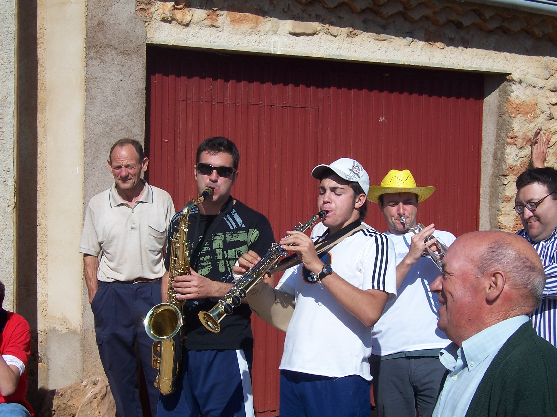 Small band, 2 saxophones, one trumpet, in Valvieja, Segovia province of Spain